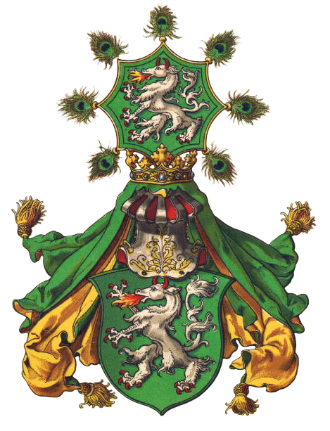 Arms of the Duchy of Styria